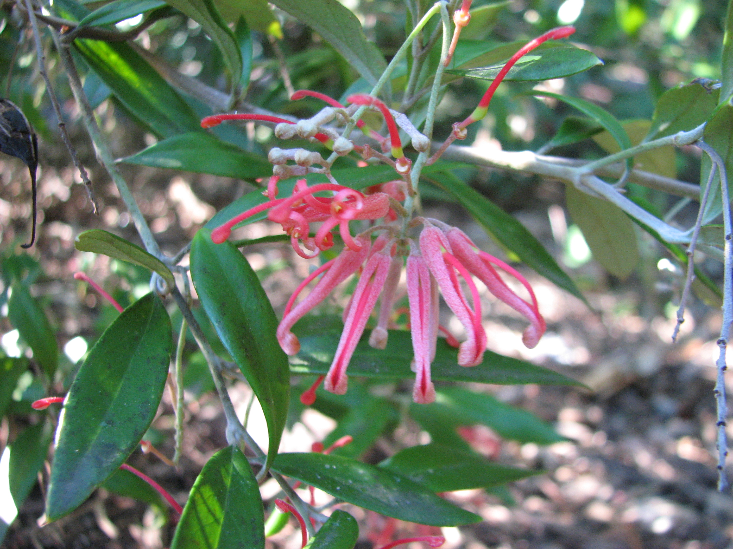 Grevillea parvula (cultivated, labelled), Royal Botanic Gardens Melbourne, Australia